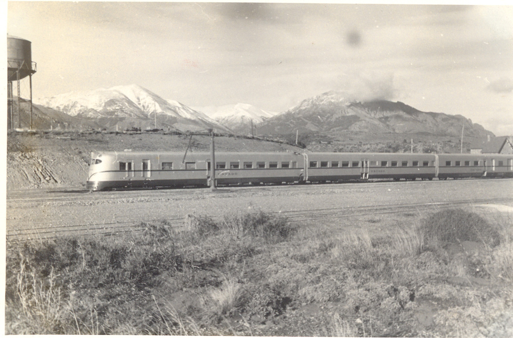 A diesel train unit by Ganz running on the Viedma - San Carlos de Bariloche line, near to arrive.